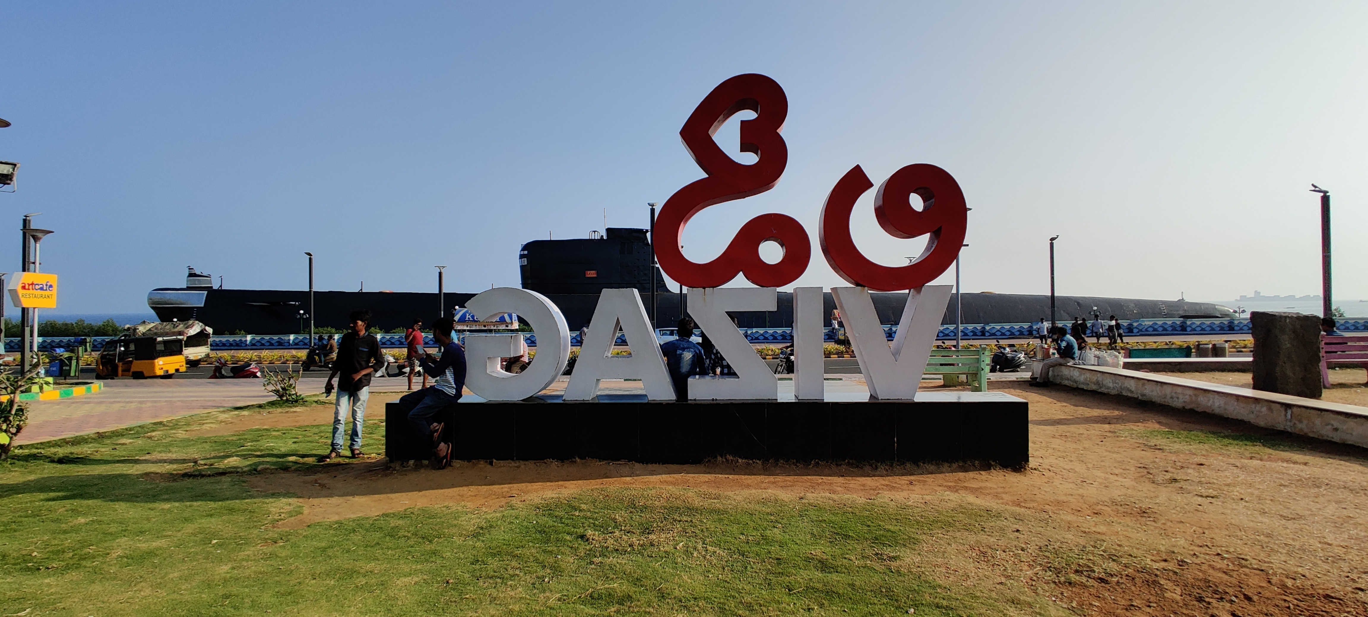 Love Vizag place is famous For visitors and Tourists. Every day thousands of people visited this spot and take pictures here. Located near Tu 142 Aircraft Museum Beach Road, Visakhapatnam just opposite to INS Kursura Submarine Museum.